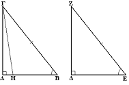 Determining congruence of right triangles SA comparison